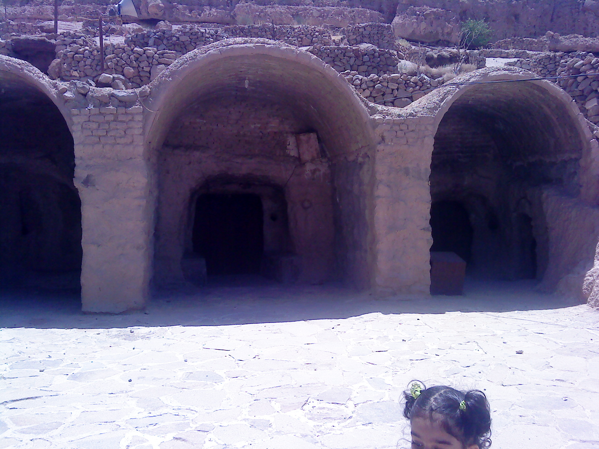 maymand rlegios